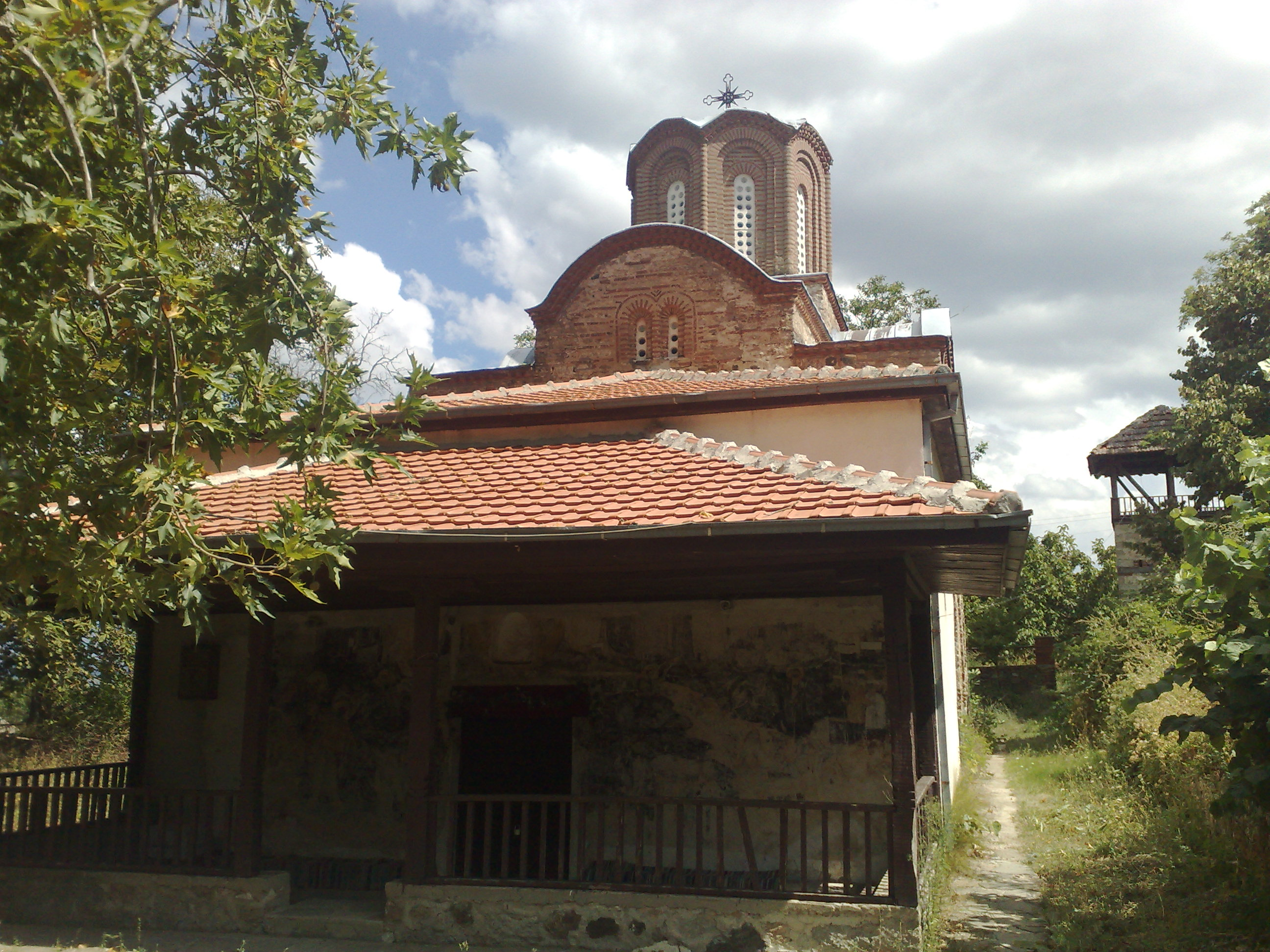 Church of Saint Stefan in the village of Konche (Radovish region), Macedonia, built in 1366